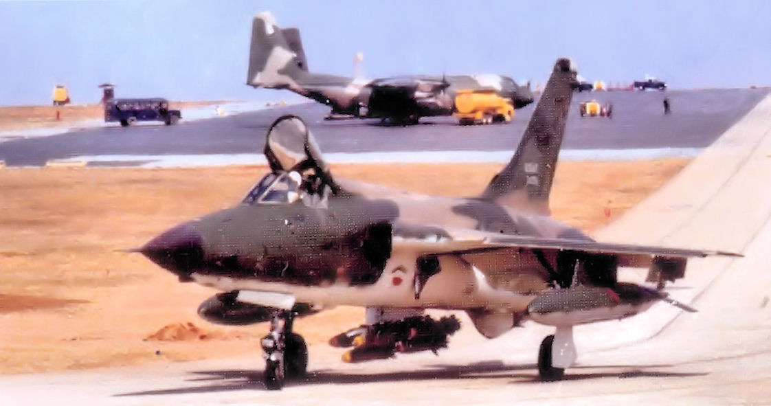 421st Tactical Fighter Squadron F-105 Thunderchief. Note the new southeast asia camoflauge paint motif, and no tail code.